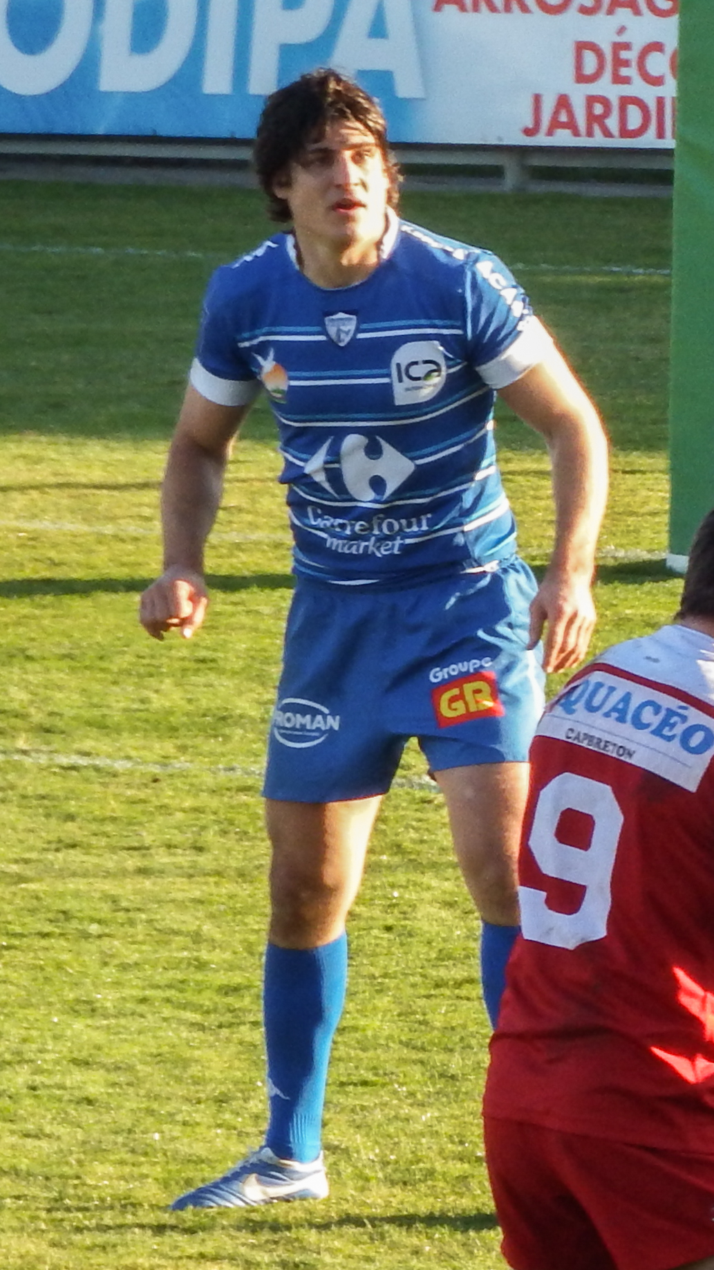 2013–14 Rugby Pro D2 season — 12 January 2014, stade Michel-Bendichou. Match between: US Colomiers — US Dax